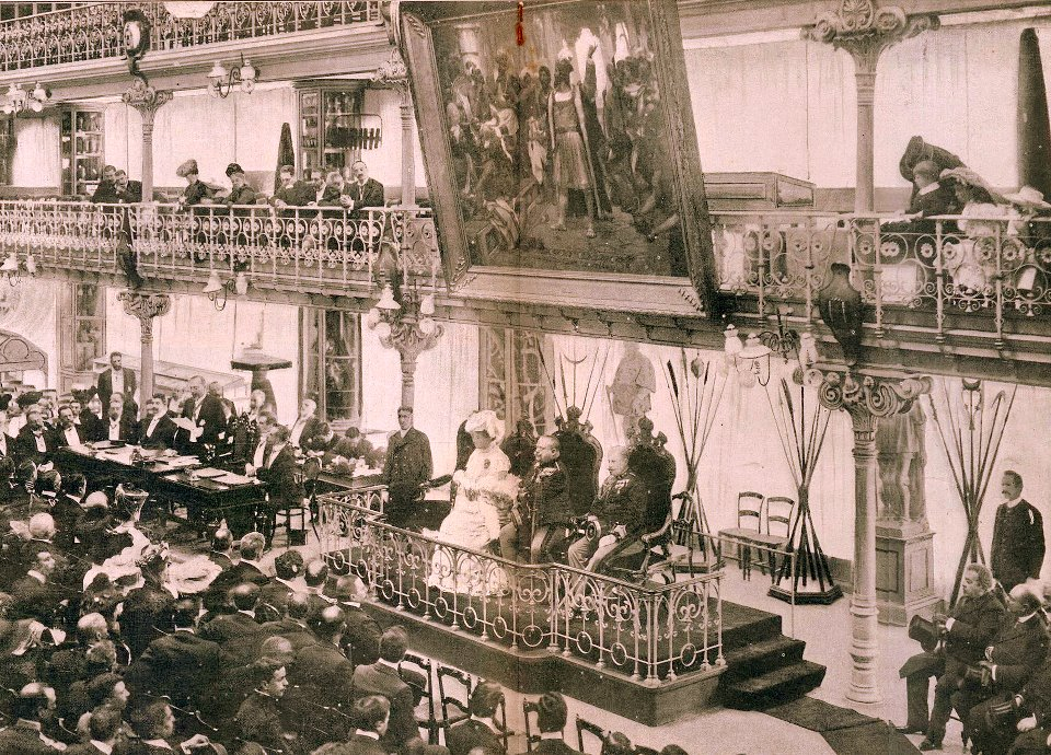 carlos i